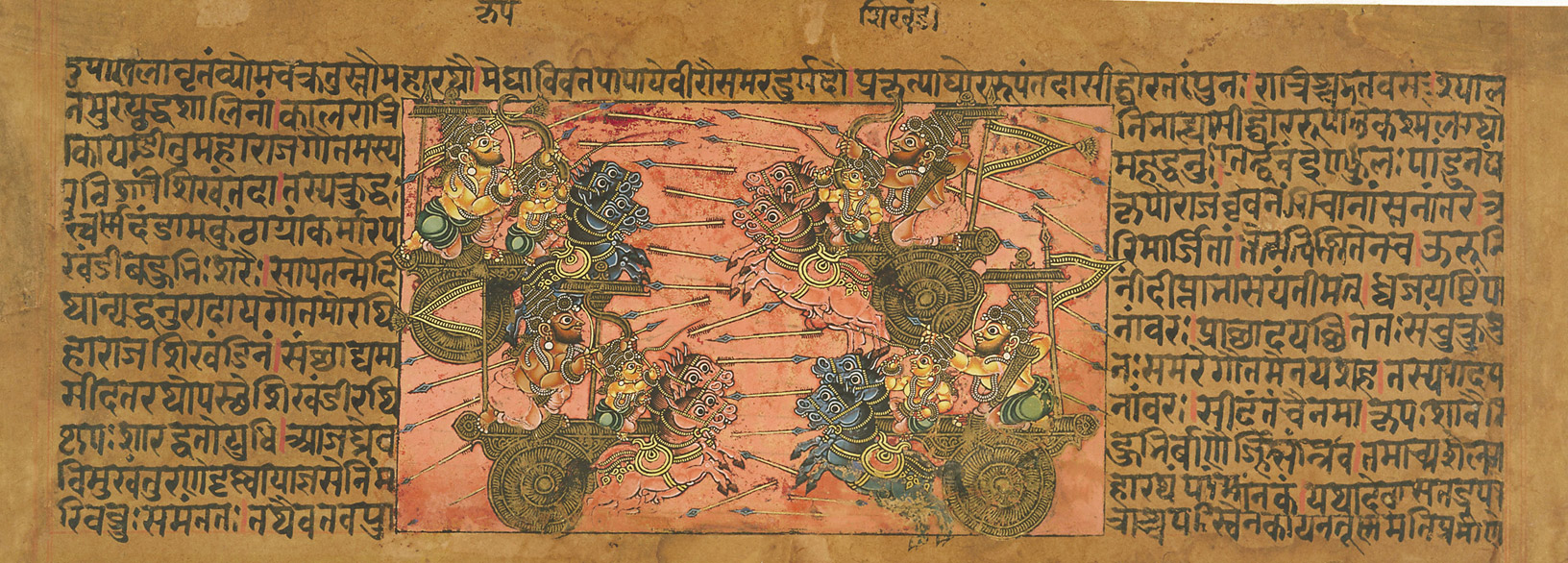 Battle Scene Between Kripa and Shikhandi from a Mahabharata 1670 (?) Opaque watercolor with gold on paper H: 15.3 W: 42.0 cm Probably Seringapatam, South India, India Purchase F1975.5 This charged scene is from the Mahabharata Great Story of the Bharatas, a sacred Hindu epic of ancient India that narrates the great war between two related clans, the Pandavas and the Kauravas. The battle scene gains vigor from the forcefully drawn figures as well as the myriad arrows activating the salmon-colored ground.